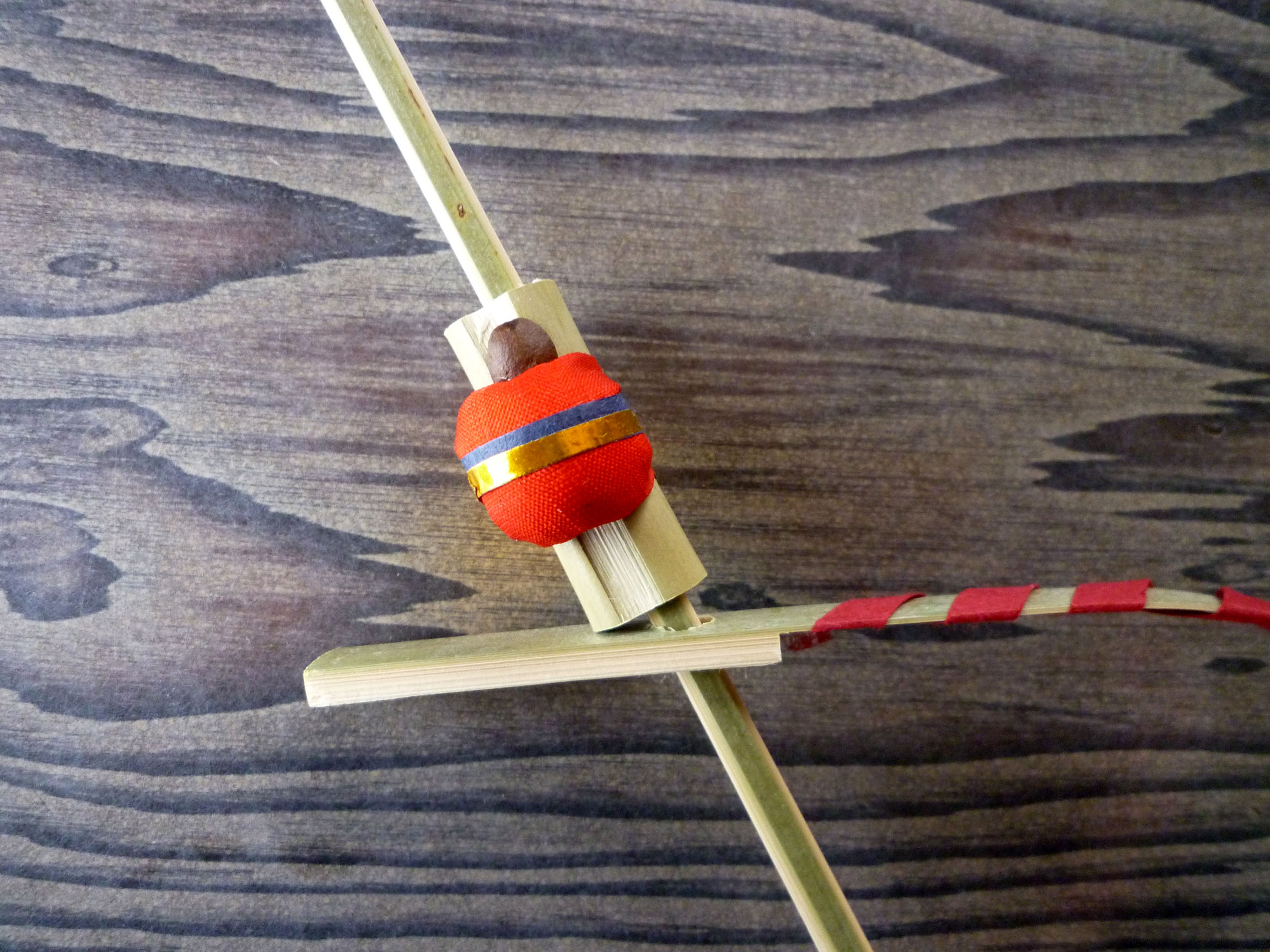 Tado no Hajikisaru